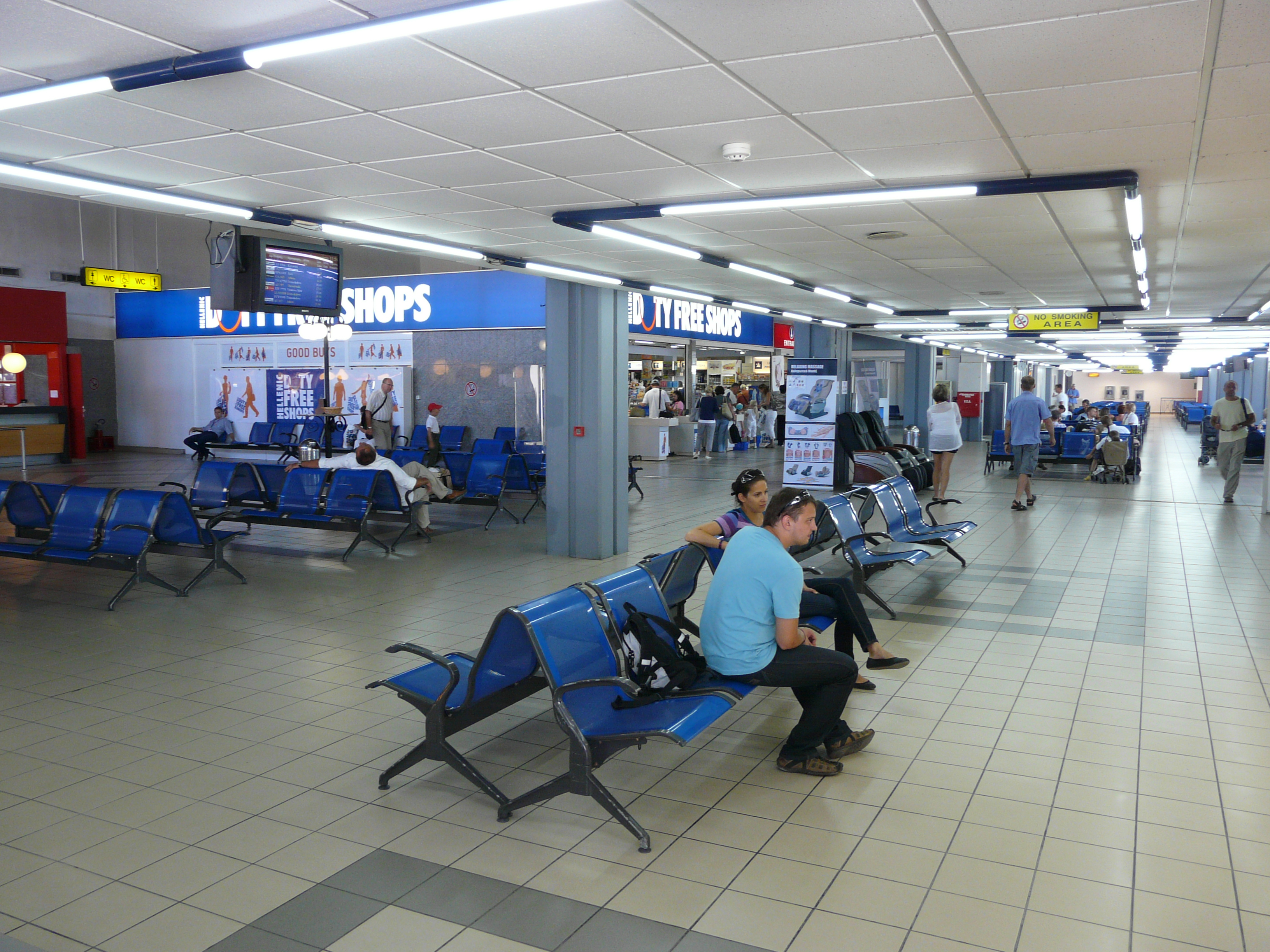 Corfu International Airport